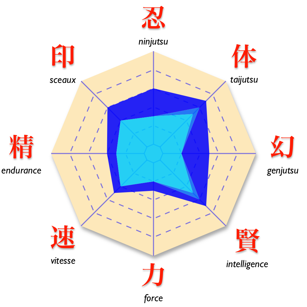 "Naruto" manga - Character "Hinata" - Capabilities evolution diagram from Official Databooks data